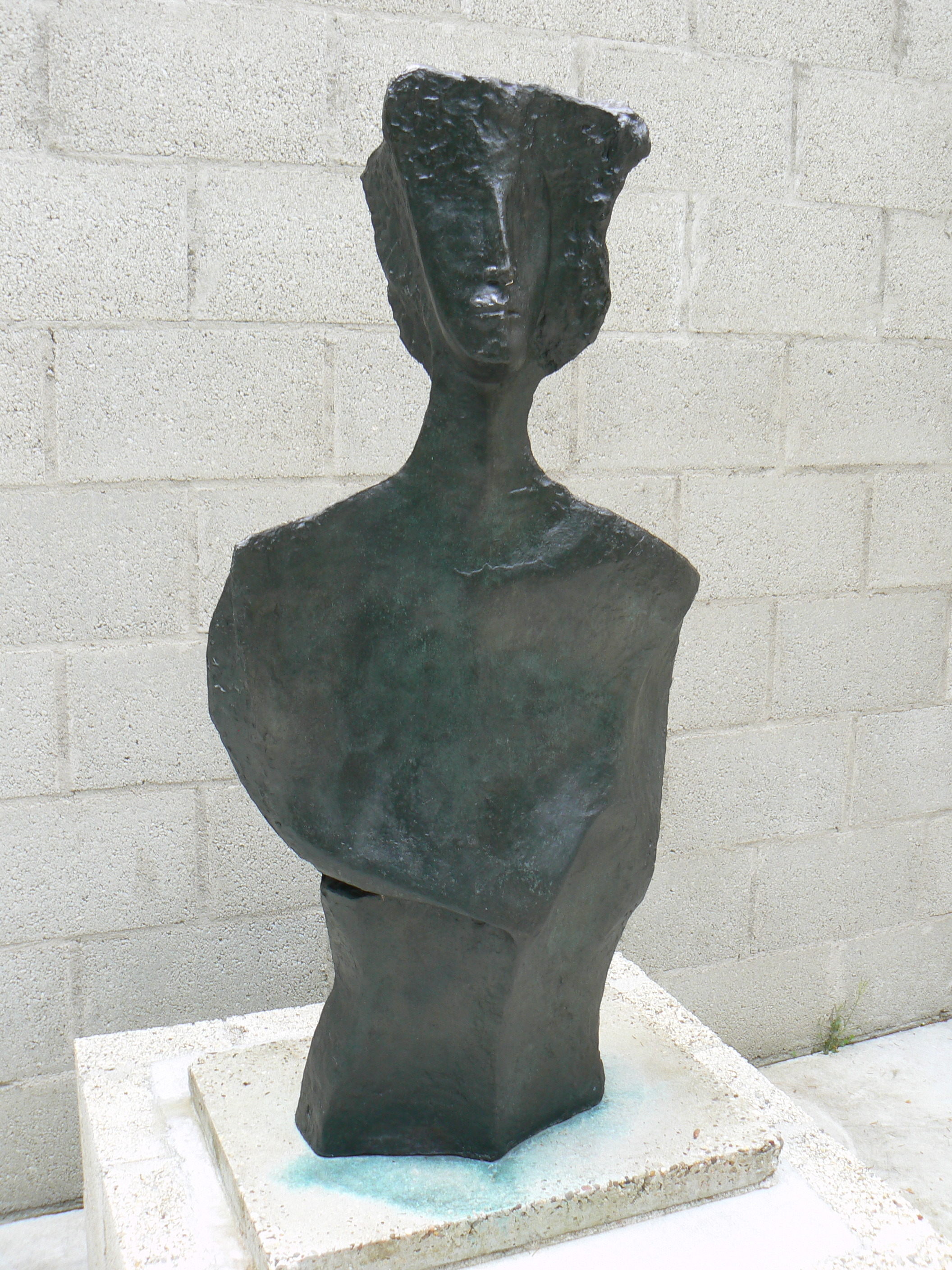 sculpture Il grande busto (1956/7) by Mario Negri in KMM Sculpturepark/The Netherlands